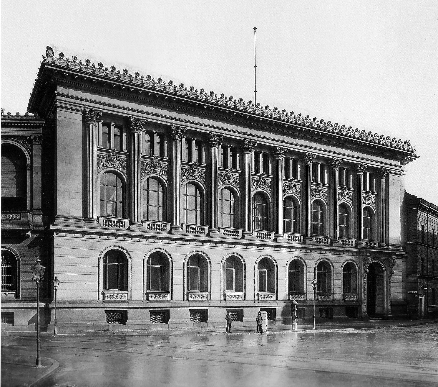 Reichsbank extension in Hausvogteiplatz. Erected 1892-94, destroyed in World War II.